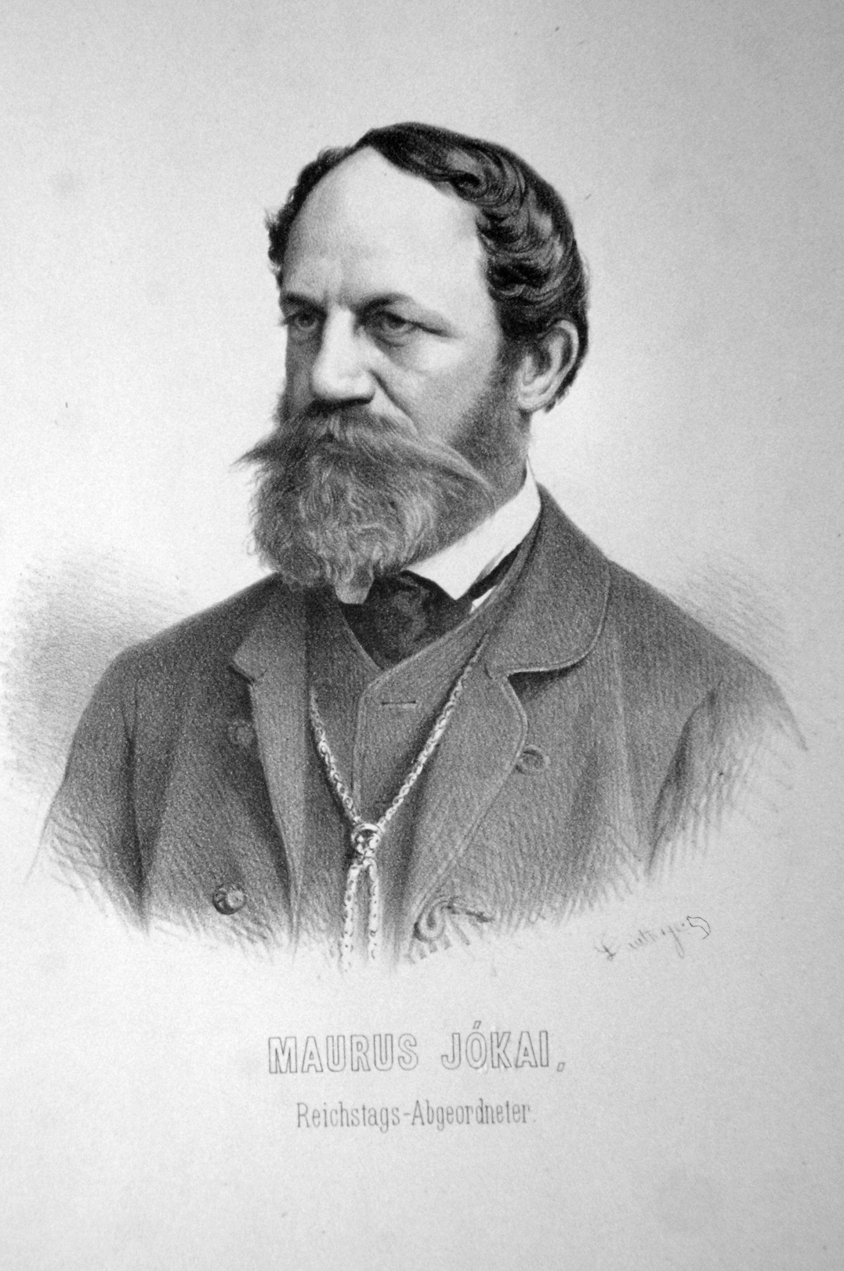 Mór Jókai (1825-1904), hungarian writer Lithograph by Adolf Dauthage From "Das Parlament" published by A. Eckstein Vienna